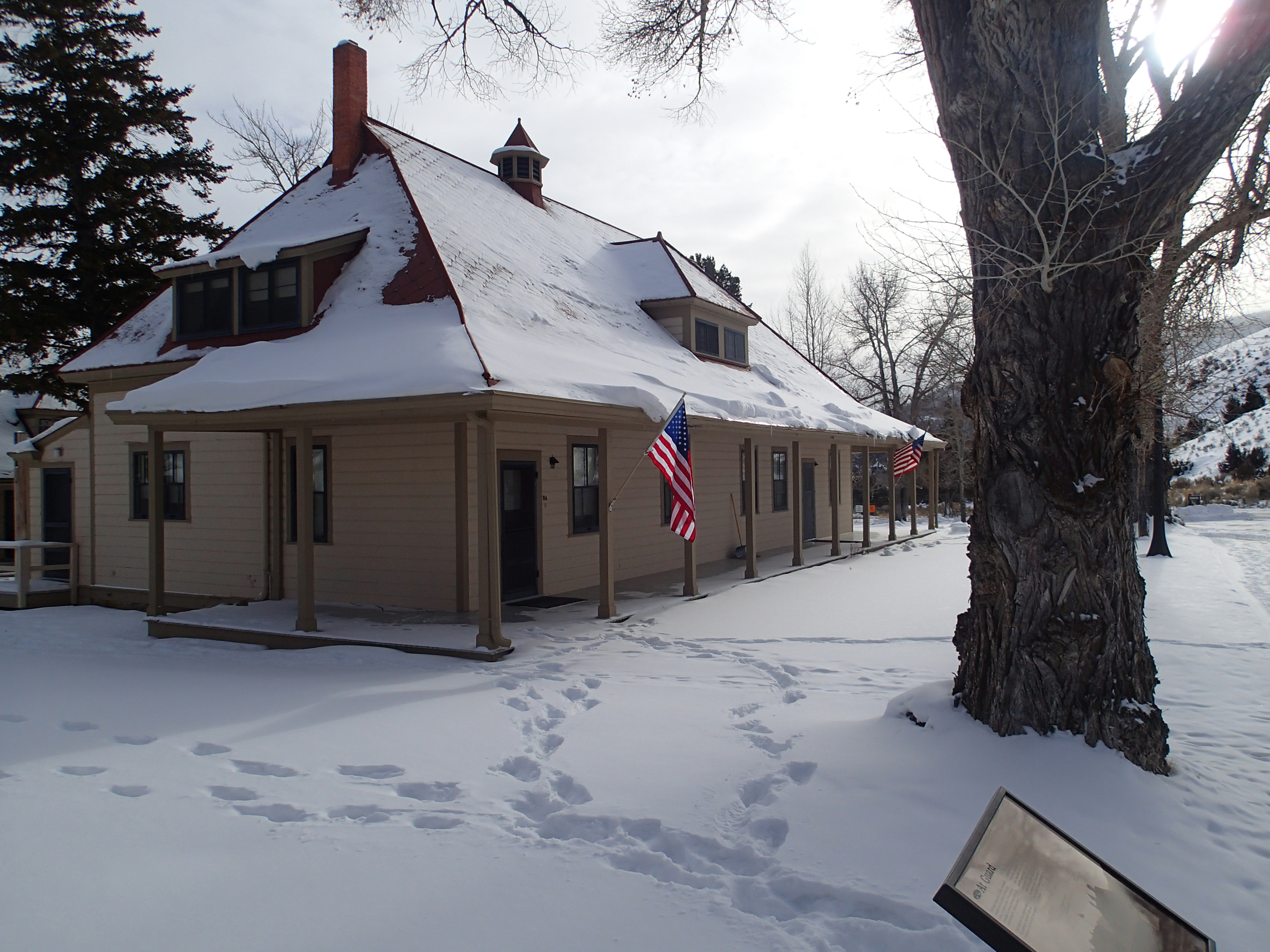 Original Fort Yellowstone Guardhouse, Yellowstone National Park, constructed in 1891, now a private residence - December 2012